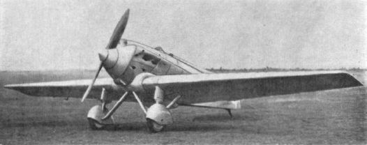 IAR CV-11 prototype, 1930. Destroyed 1931.